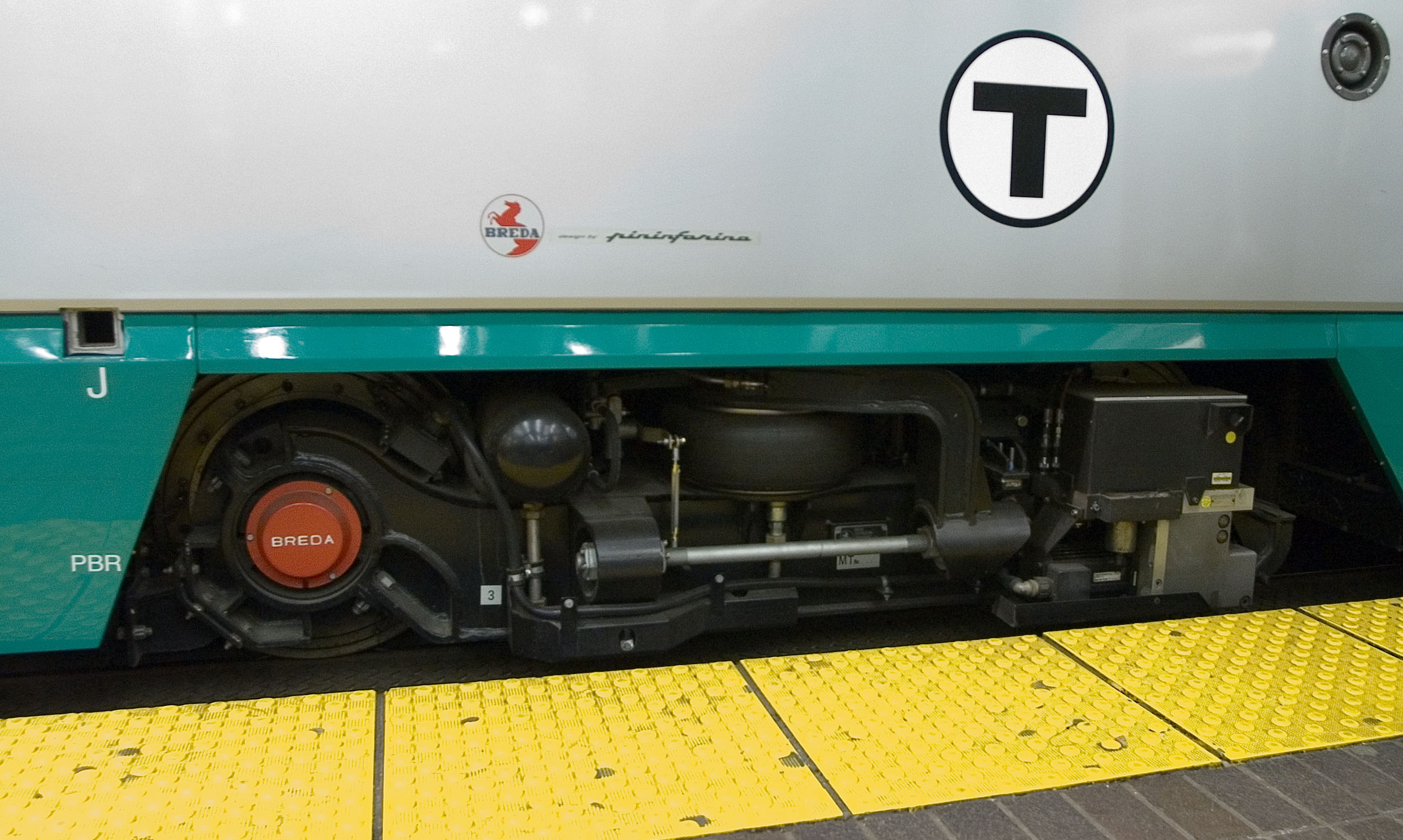 The rear wheel truck of an MBTA Type 8 Light Rail Vehicle built by AnsaldoBreda. I the author release all rights to this image.